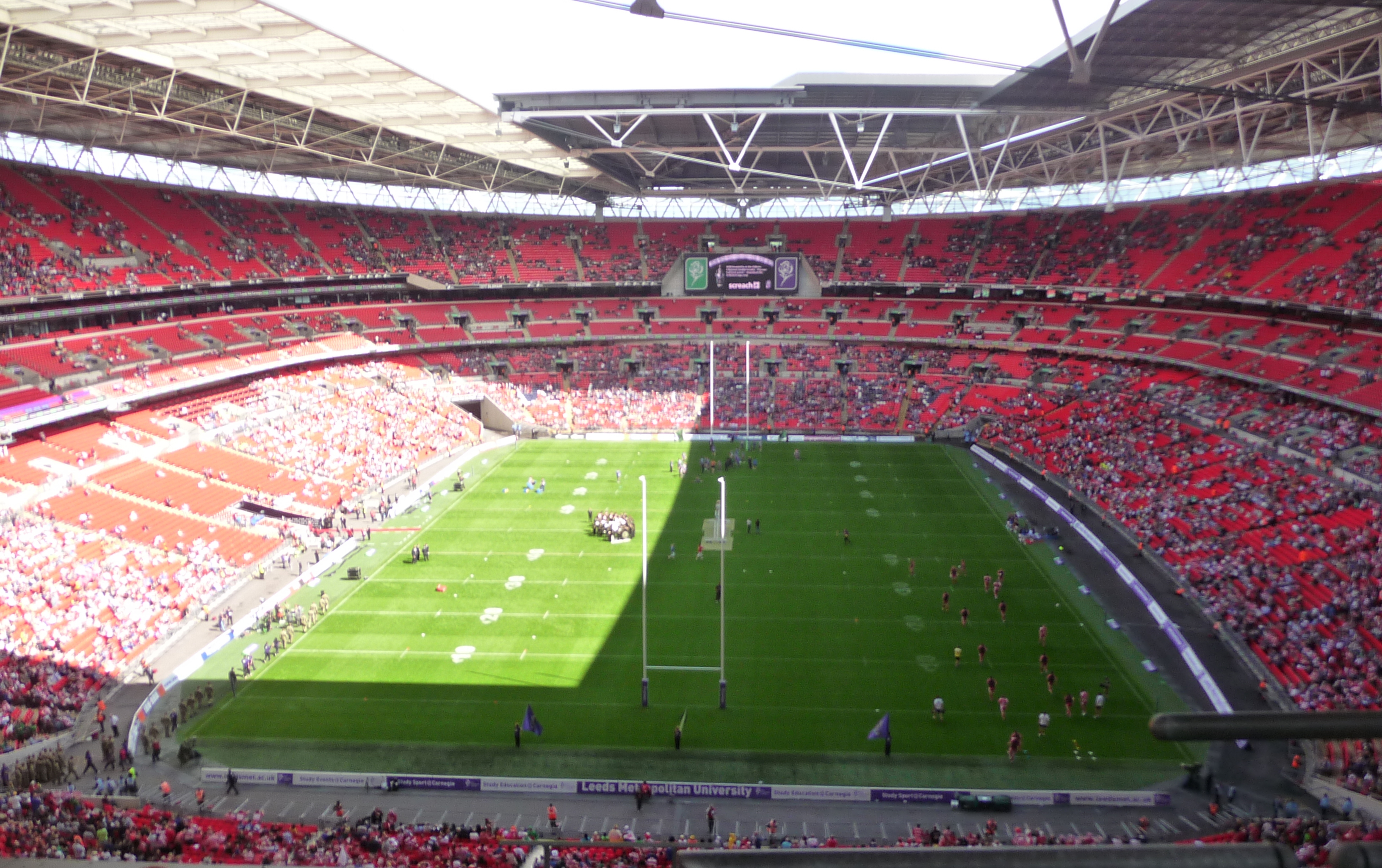 Wembley Stadium. Pictured in August 2011 prior to the rugby league Challenge Cup final between Wigan Warriors and Leeds Rhinos.